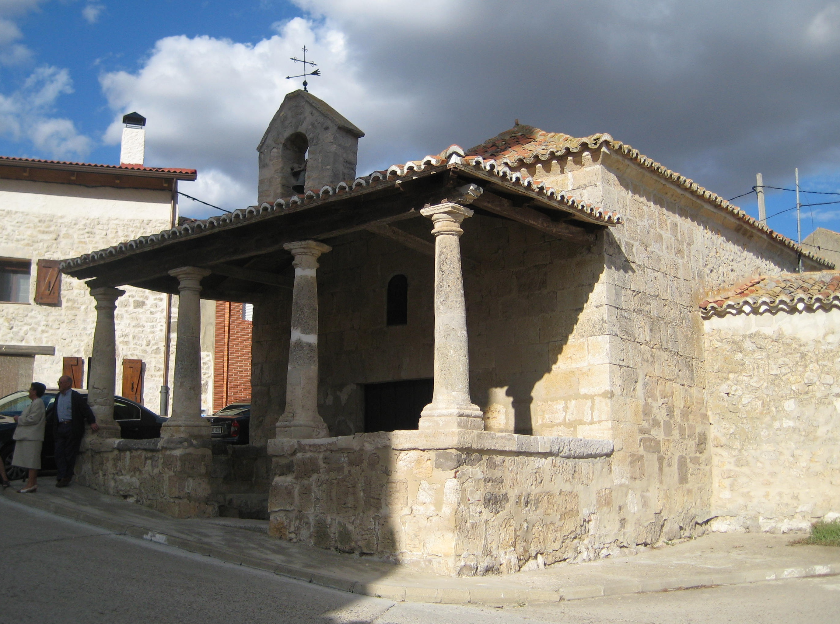 Hermitage in Quintanilla de Trigueros, Valladolid, Spain.